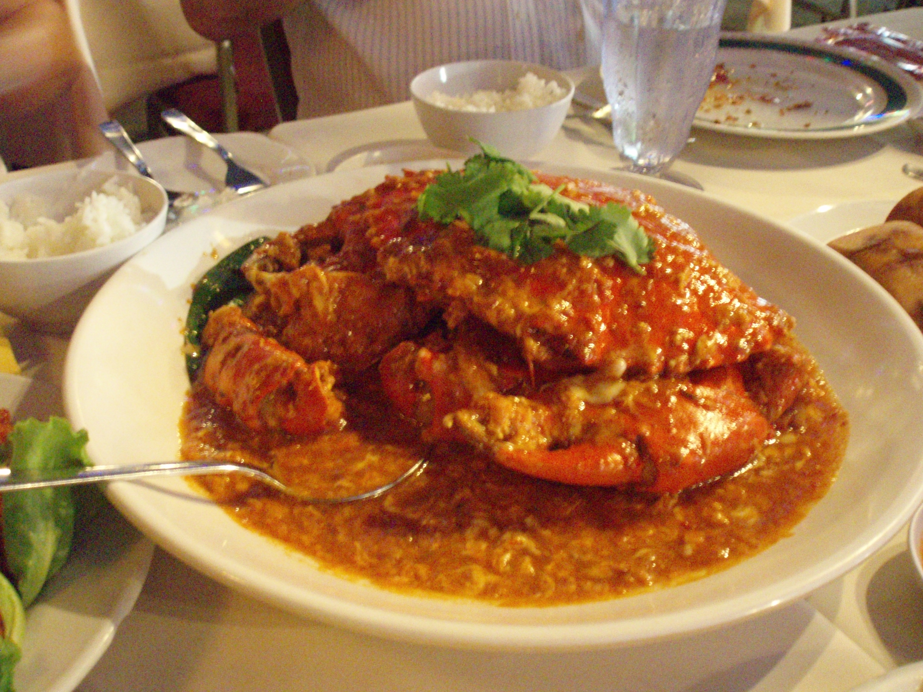 You cannot ever be in Singapore and not try the chilli crab! It's amazingingly delicious!